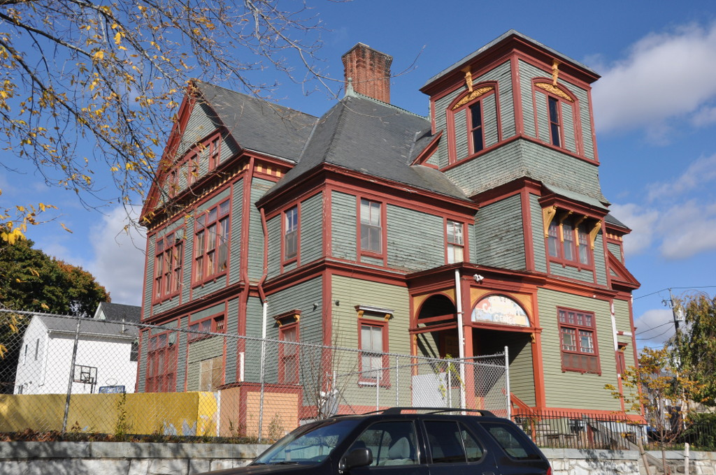 Covell Street School, Providence, Rhode Island. Now a community center.